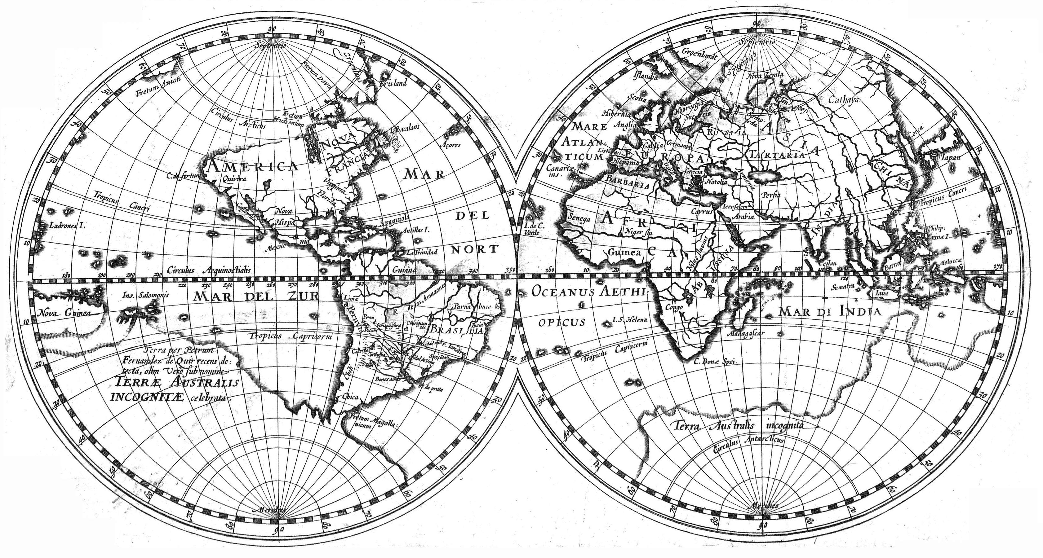 Worldmap of 1612 including the discovery of La Austrialia del Espiritu Santo by Pedro Fernandes de Queirós